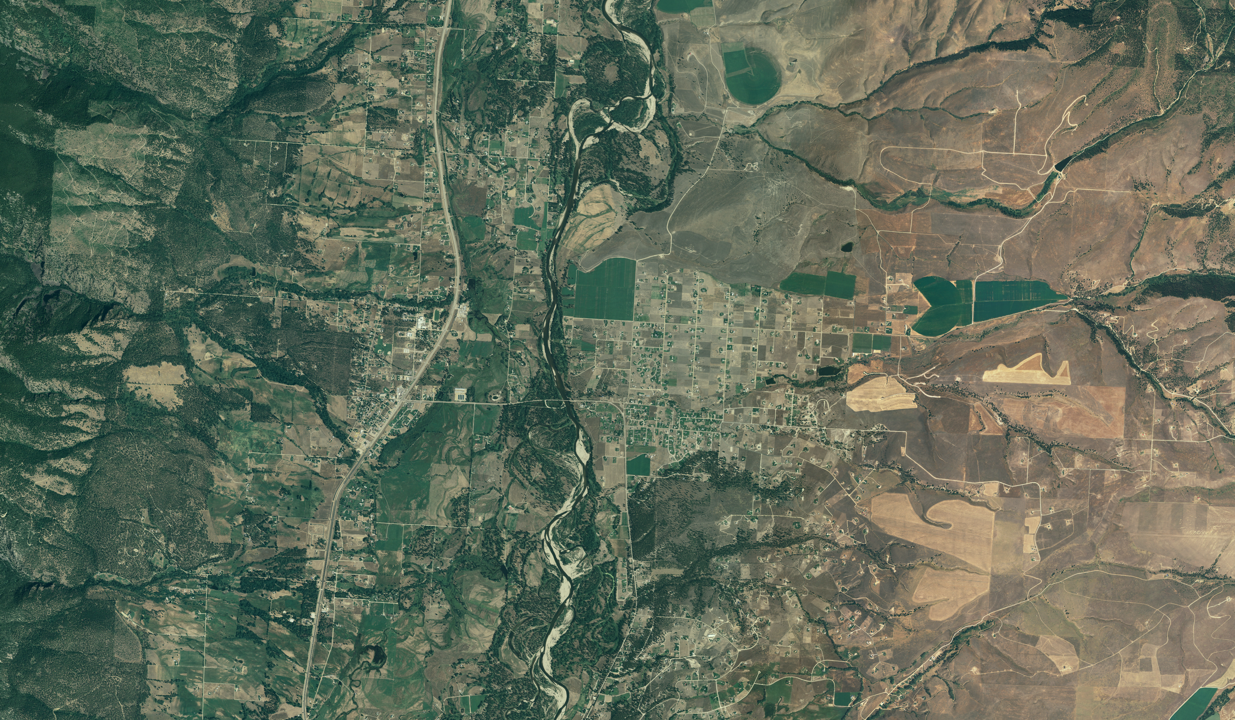 Color aerial photograph of Florence, MT and surrounding area from 2005 NAIP data. Obtained through State of Montana's NAIP ArcIMS server.